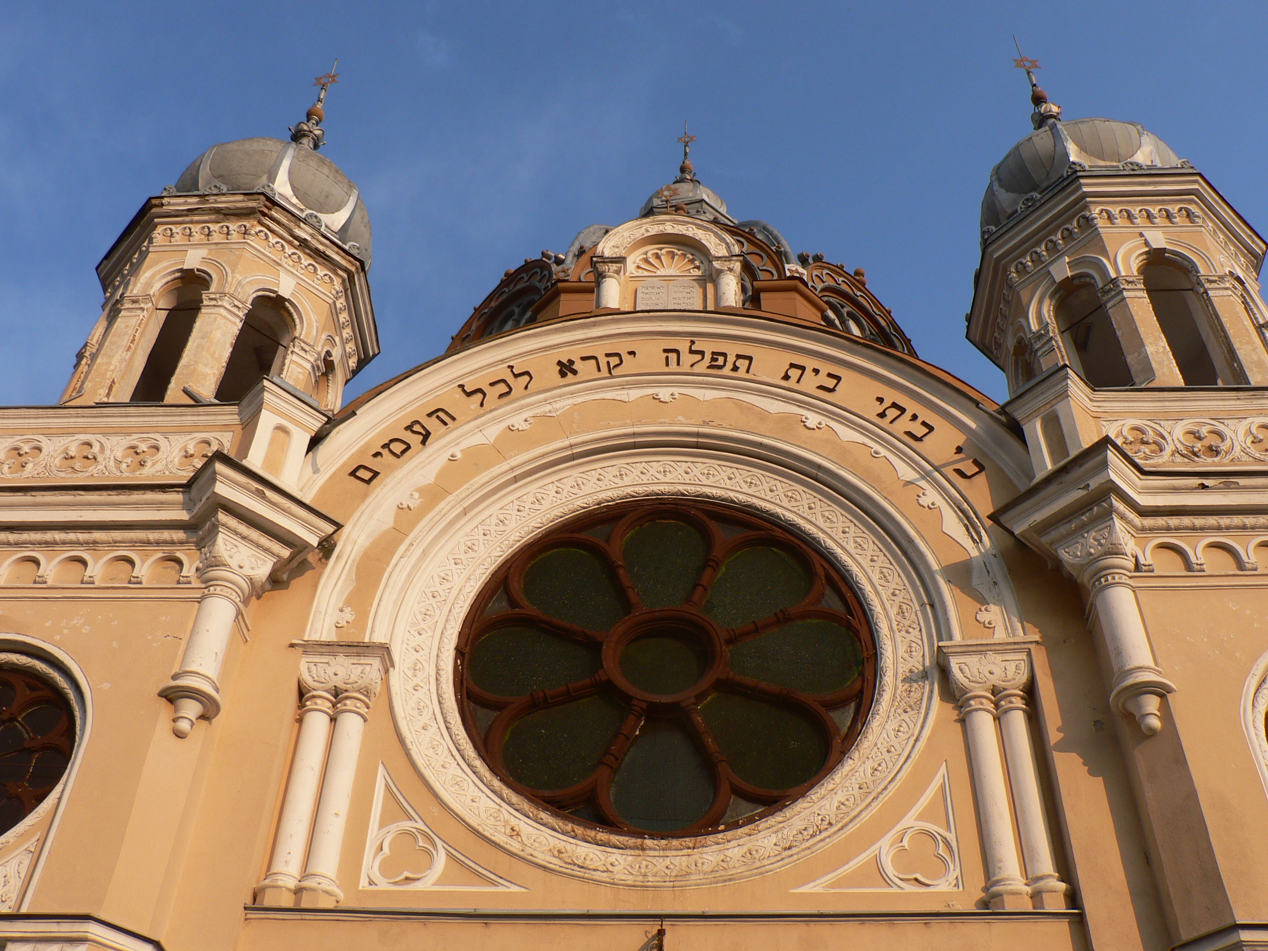 Targu Mureş, synagogue